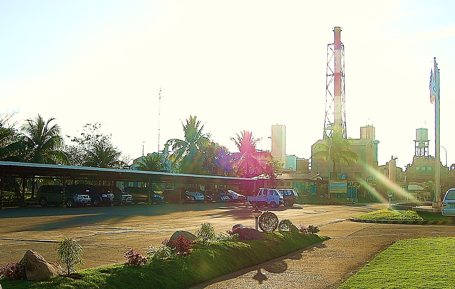 The Philippine Associated Smelting and Refining Corporation owns and operates the only copper smelter and refinery in the Philippines (Isabel, Leyte).